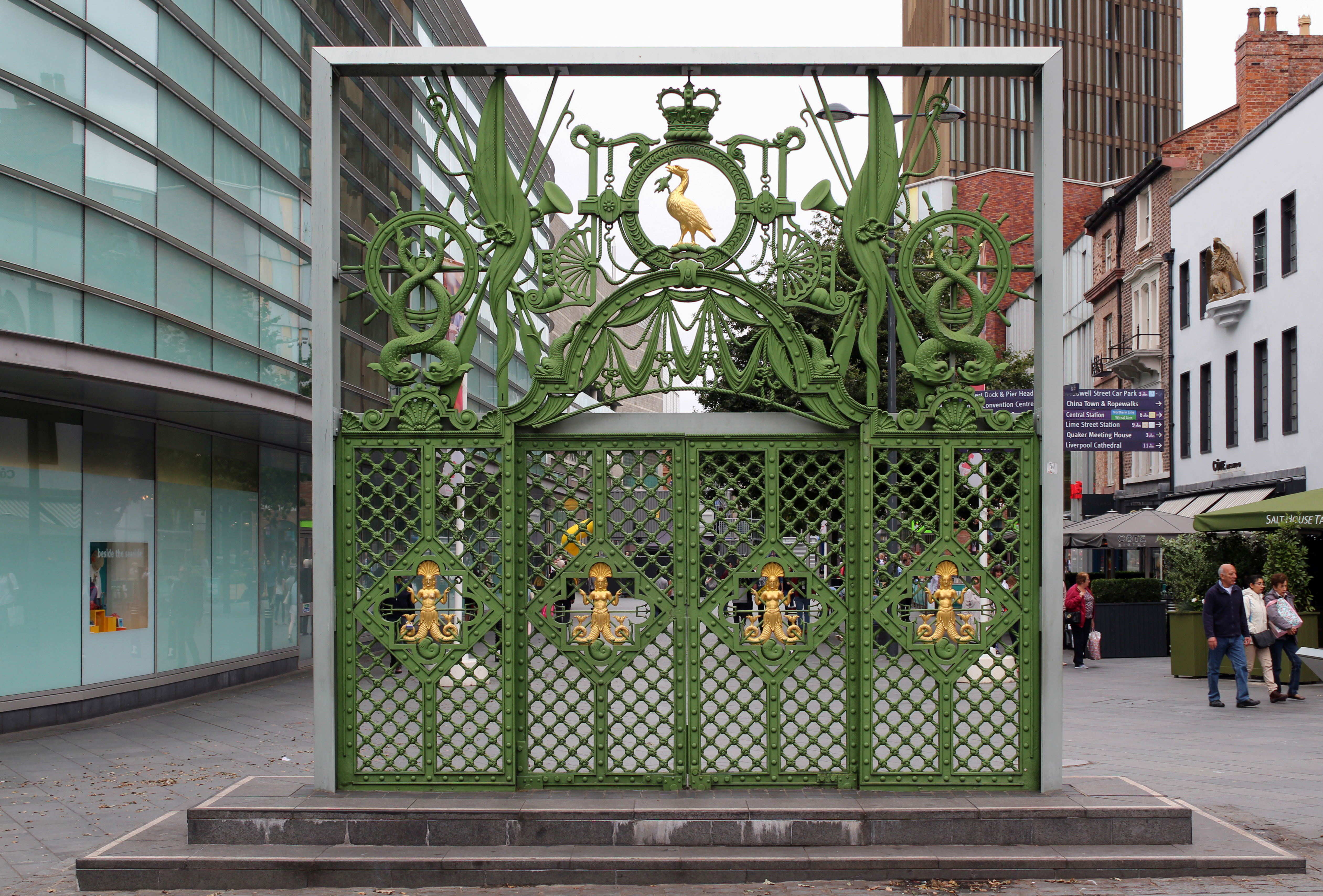 View north from Hanover Street